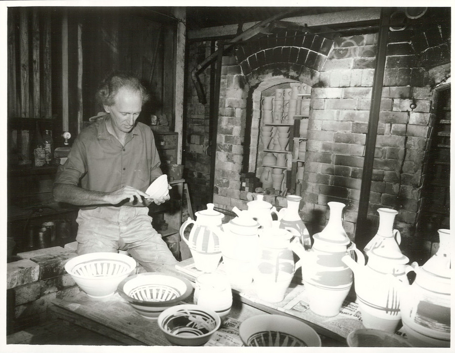 Title: Art - Pottery Publicity Caption: Peter Stitchbury checking pottery prior to firing. Photographer: G. Riethmaier March 1974, Auckland Archives New Zealand Reference: AAQT 6539 W3537 140 / B4505 Stichbury was born in 1924. In 1957, he was the first recipient of a fellowship from the Association of New Zealand Art Societies, which is now Creative New Zealand, and went with his wife Diane to St Ives, Cornwall, England to study with Bernard Leach. From there, he went to Africa and was Michael Cardew’s first western student in Abuja in Nigeria. Stichbury set up the pottery department at Ardmore Teachers College. His pottery was given to Queen Elizabeth II during her 1974 royal tour to New Zealand. While Stichbury is mostly known for his pottery he also built musical string instruments (cellos, violas) in his later years. The work of Stichbury was honoured by exhibitions at the Auckland Museum[ in 2004 and the New Zealand National Museum Te Papa in 2011/12. In the 2002 Queen's Birthday Honours, he was appointed a Member of the New Zealand Order of Merit for services to pottery. Stichbury died on 24 March 2015. For further enquiries Material from Archives New Zealand Te Rua Mahara o te Kāwanatanga